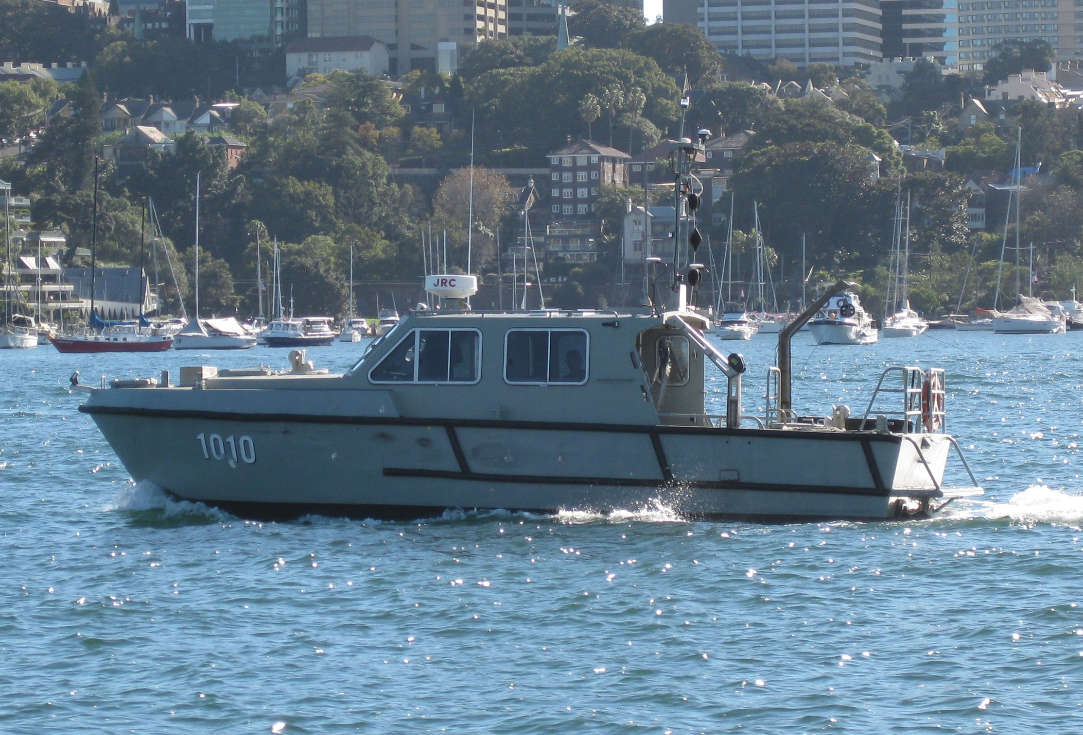 Survey motor vessel John Gowland on Sydney Harbour. This ship is operated by DMS Marine on behalf of the Royal Australian Navy.